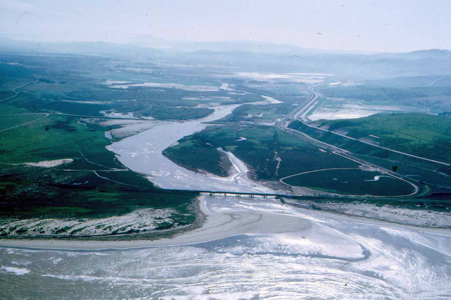 CDFW photo by J. Speth.